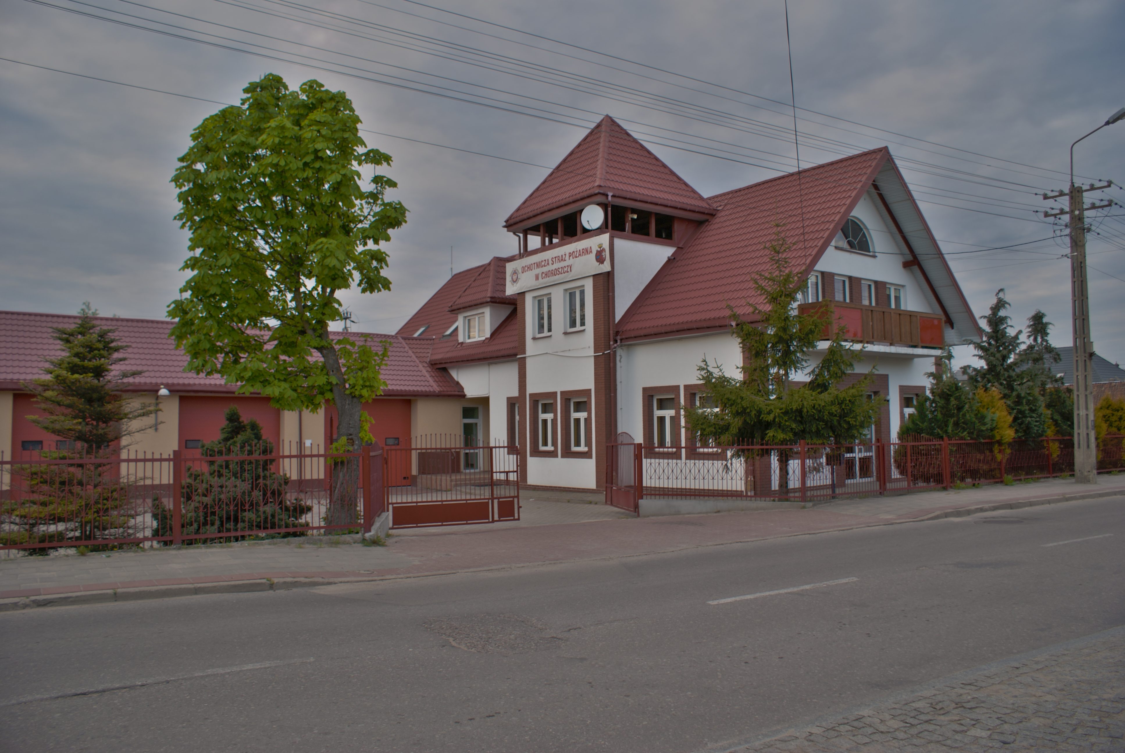 Firestation in Choroszcz